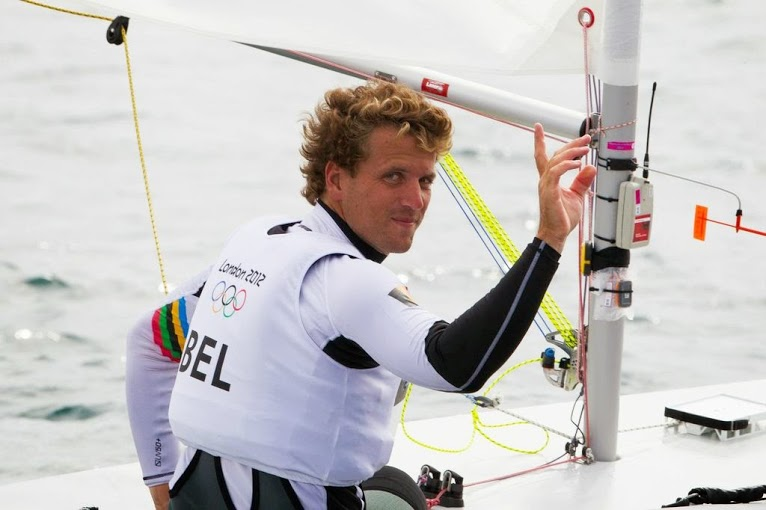 Picture of Wannes Van Laer in Weymouth at the London 2012 Olympics.